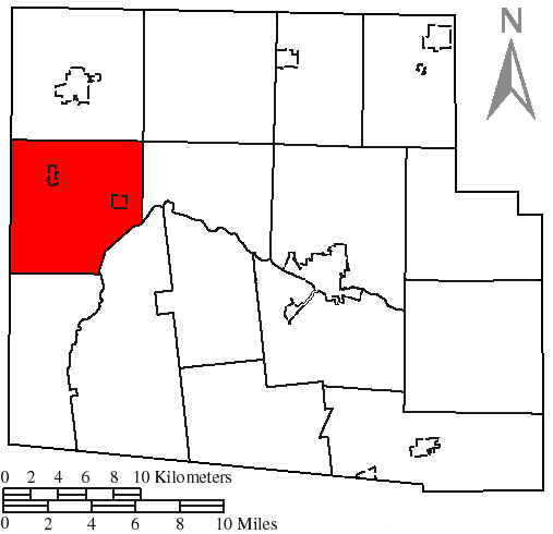 Made by the US Census and modified by myself to highlight the township